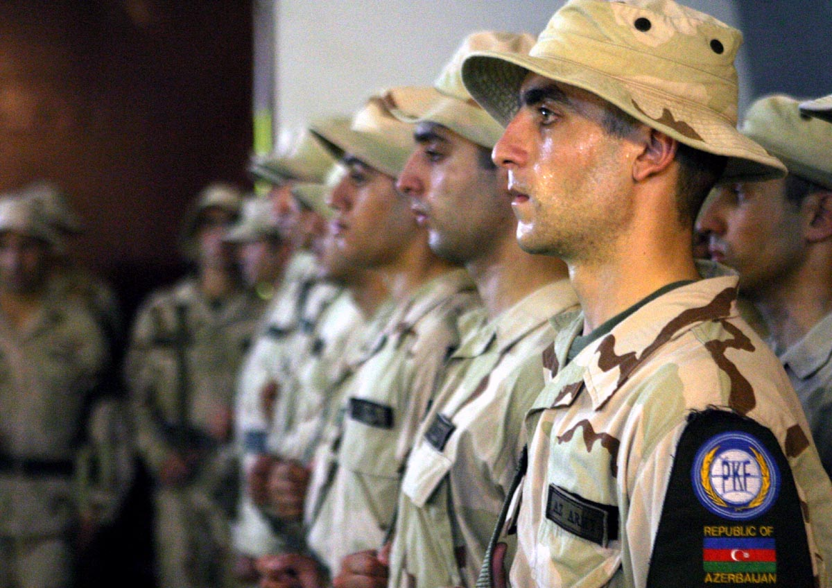 Members of the Azerbaijani Army stand in formation during their Change of Command Ceremony at the Hadithah Dam, Iraq during Operation Iraqi Freedom. The Azerbaijani Army is deployed with Regimental Combat Team 7, I Marine Expeditionary Force (FWD) in support of Operation Iraqi Freedom in the Al Anbar Province of Iraq (MNF-W) to develop the Iraqi Security Forces, facilitate the development of official rule of law through democratic government reforms, and continue the development of a market based economy centered on Iraqi Reconstruction.